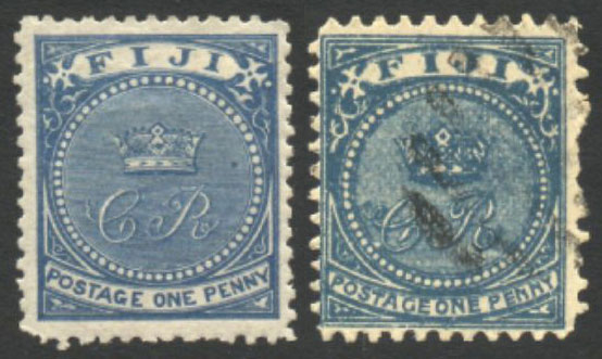 The "CR" Issues of 1871, Fiji, 1 penny value. Comparison of the genuine stamp and Mercier forgery